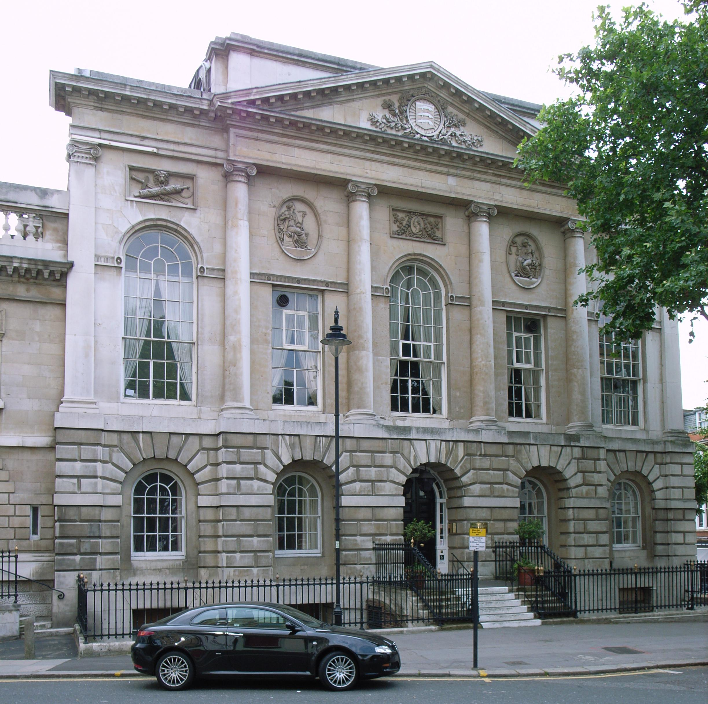 Middlesex Sessions House, Clerkenwell, London Borough of Islington.